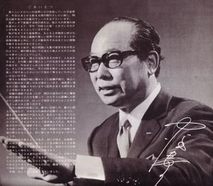 Hisashi Nakazawa On Stage 1971